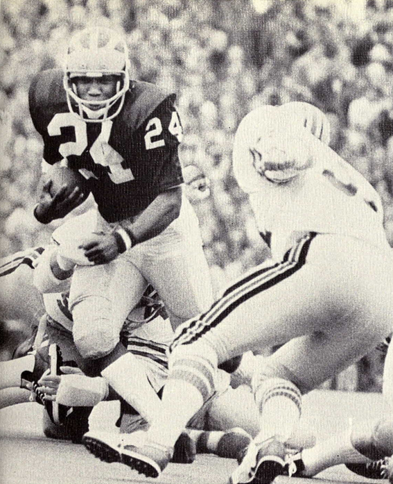 Photograph of Gil Chapman running against Ohio State in 1973